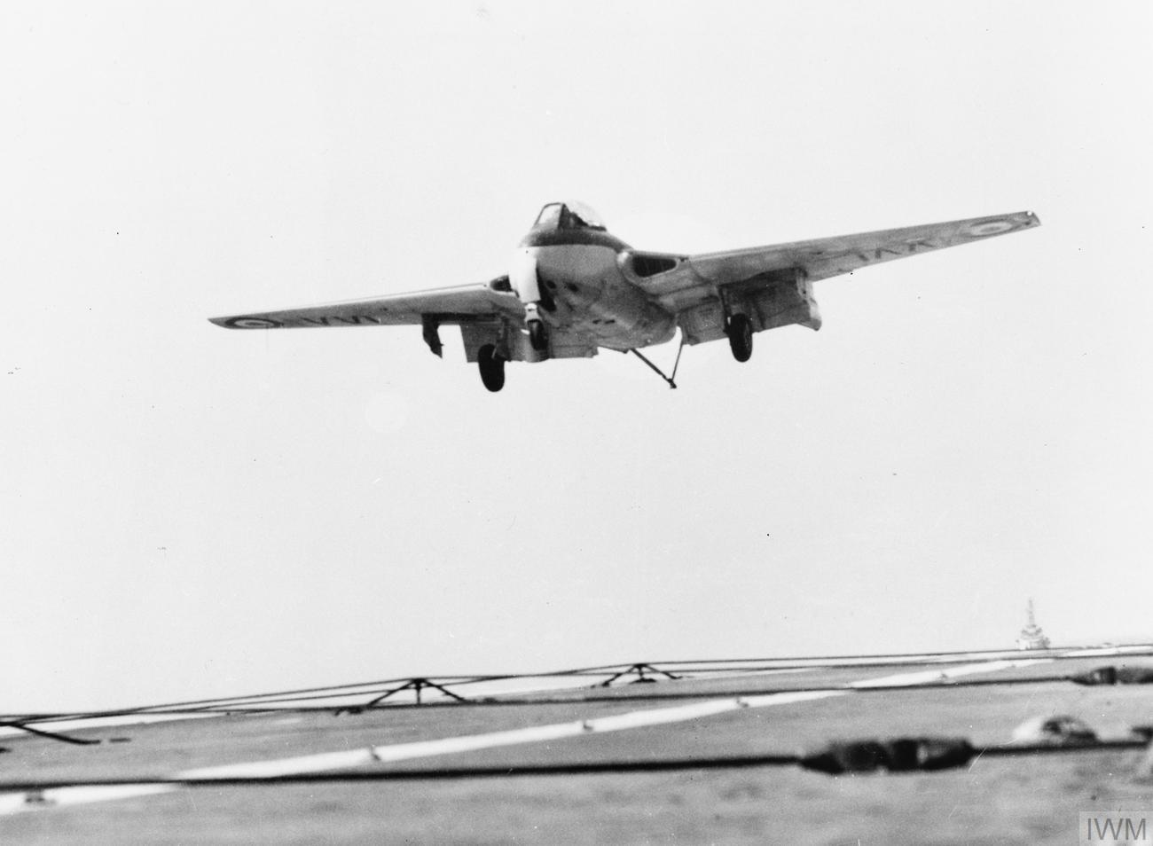 A Royal Navy De Havilland Sea Vampire F.20 jet fighter coming in to land on the deck of aircraft carrier HMS Vengeance (R71) during an exercise in the English Channel, in 1951.